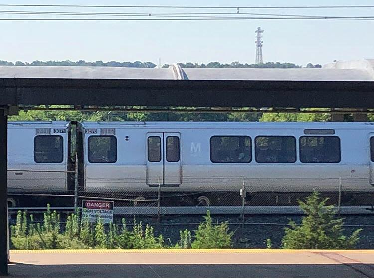 Rehab Breda 3070-3071 on the Orange Line preparing to depart New Carrollton Metro Station. These cars are wrapped in the new Vinyl Wrap.